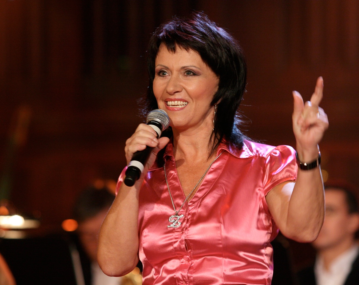 Zuzana Sirská